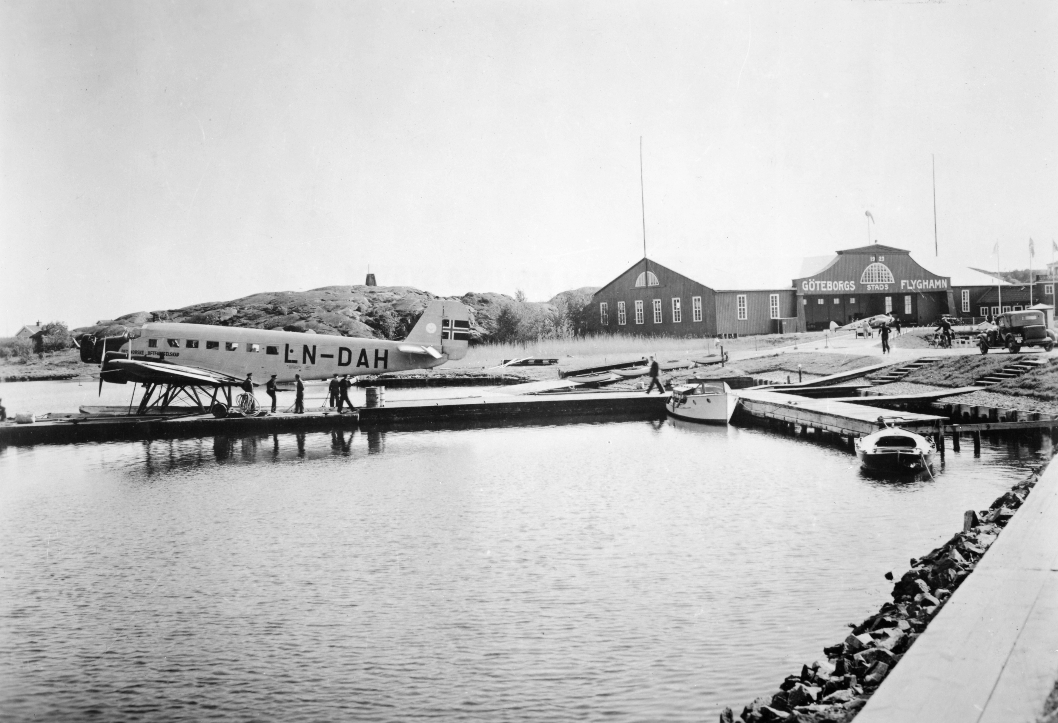 Junker Ju 52 LN-DAH, DNL aircraft at Gotheburgs airport, Göteborgs Flyghamn 1940s.